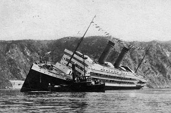 SS Principessa Jolanda sinking off the coast of Riva Trigoso, near Genoa, Italy